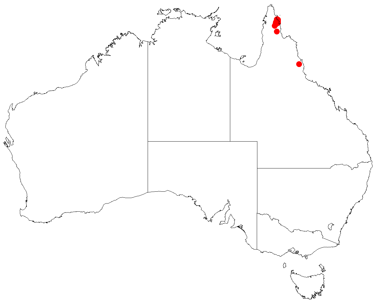 Leptospermum purpurascens occurrence data downloaded from Australasian Virtual Herbarium on 2020-05-25 using DOI